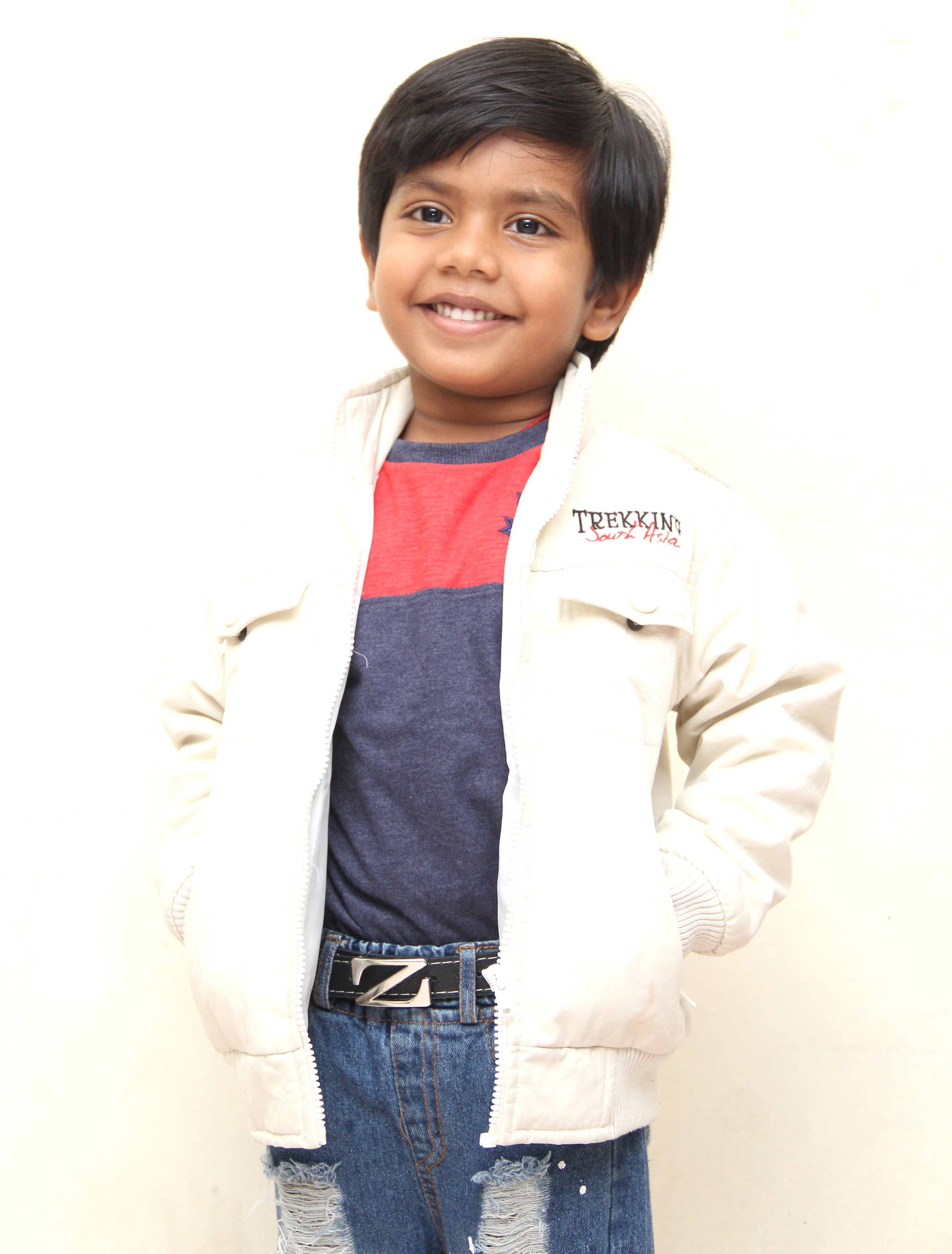 Junior Super Star Ashwanth standing with him cute smile